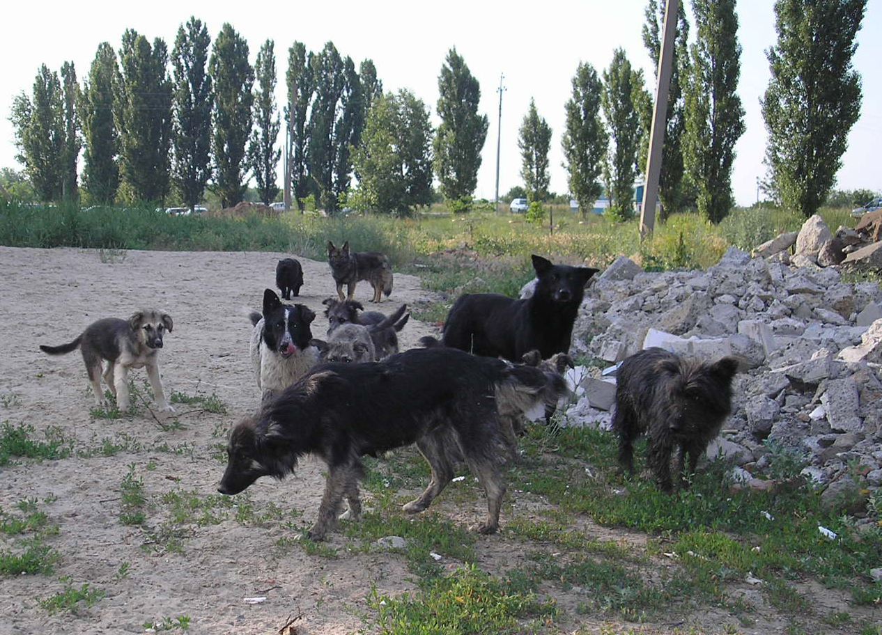 Stray dogs. Rostov Oblast. Russia